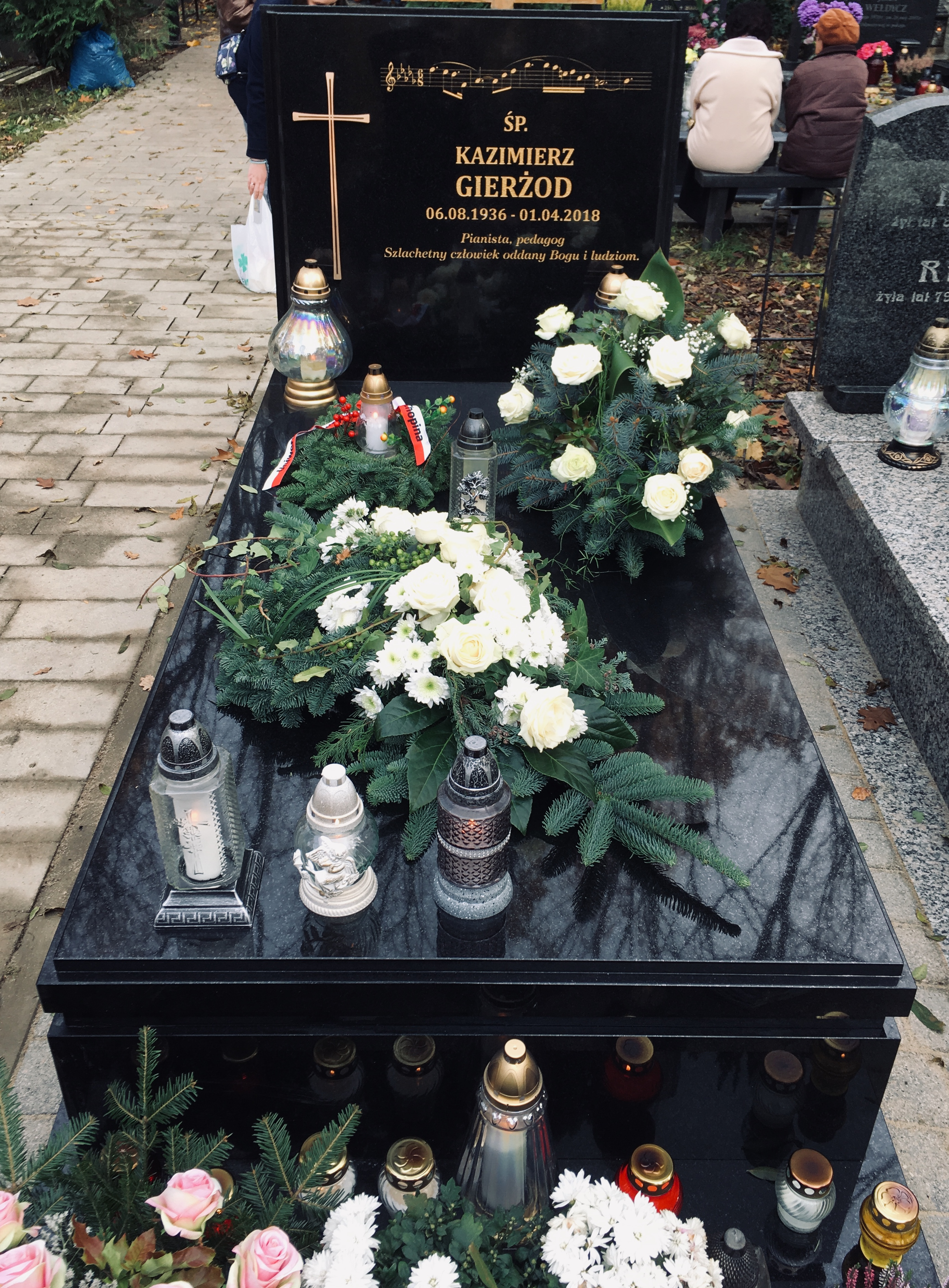 Kazimierz Gierzod Tomb